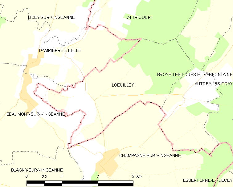 Map of French municipality